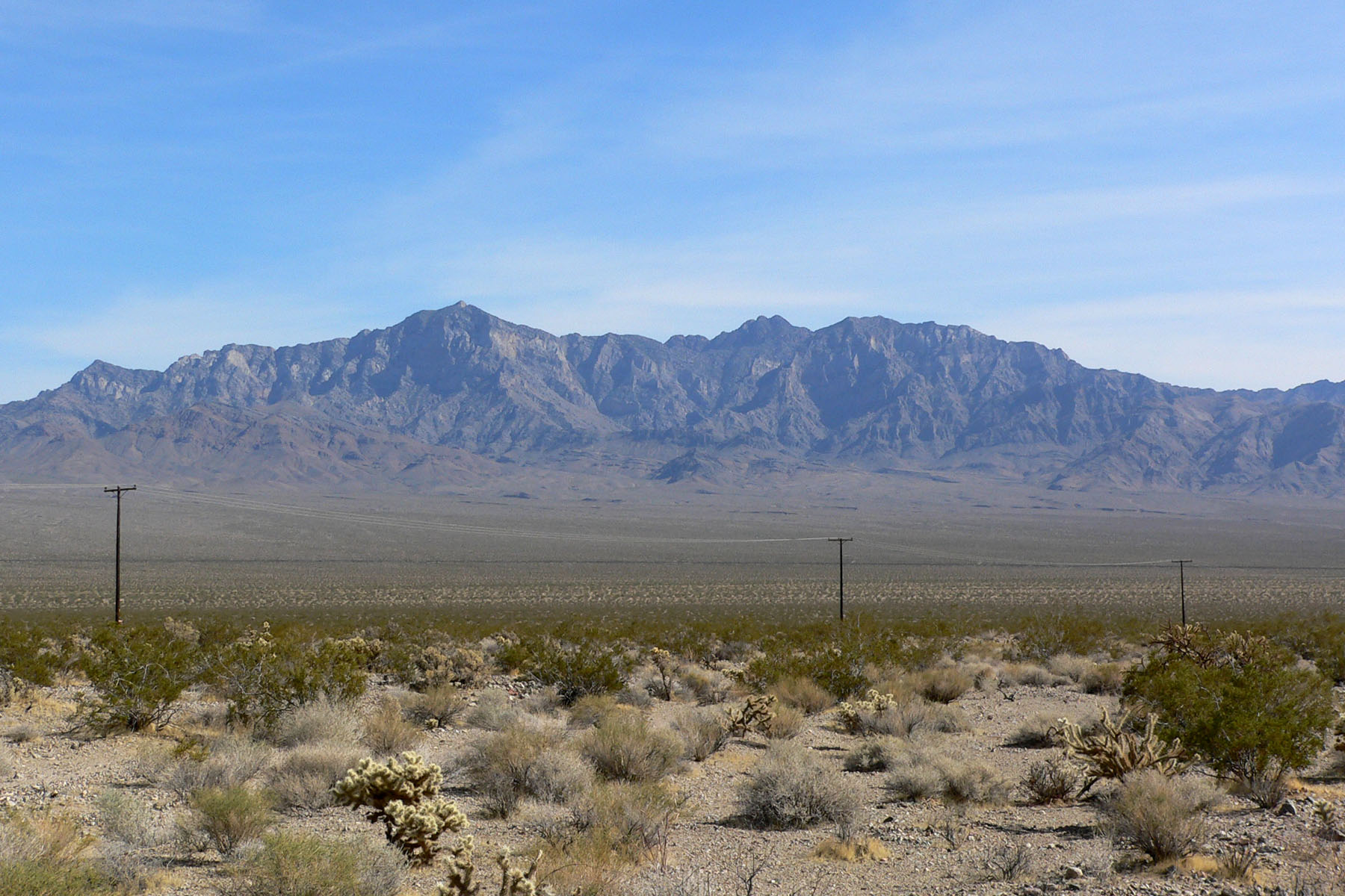 Providence Mountains, Mojave National Preserve, southeastern California